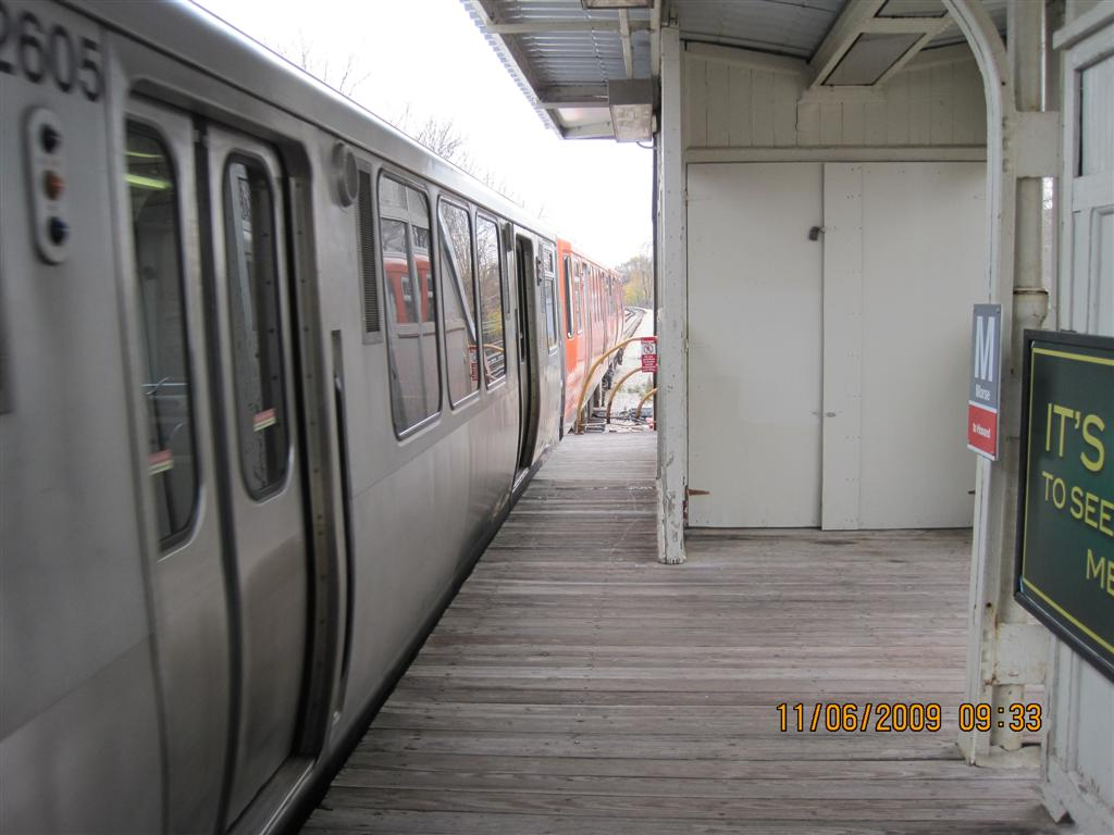 Picture of the Morse CTA station platform in Chicago. This is the south end of the platform, on the east side (northbound), showing a passing train and the narrow gap between guardrail and train.